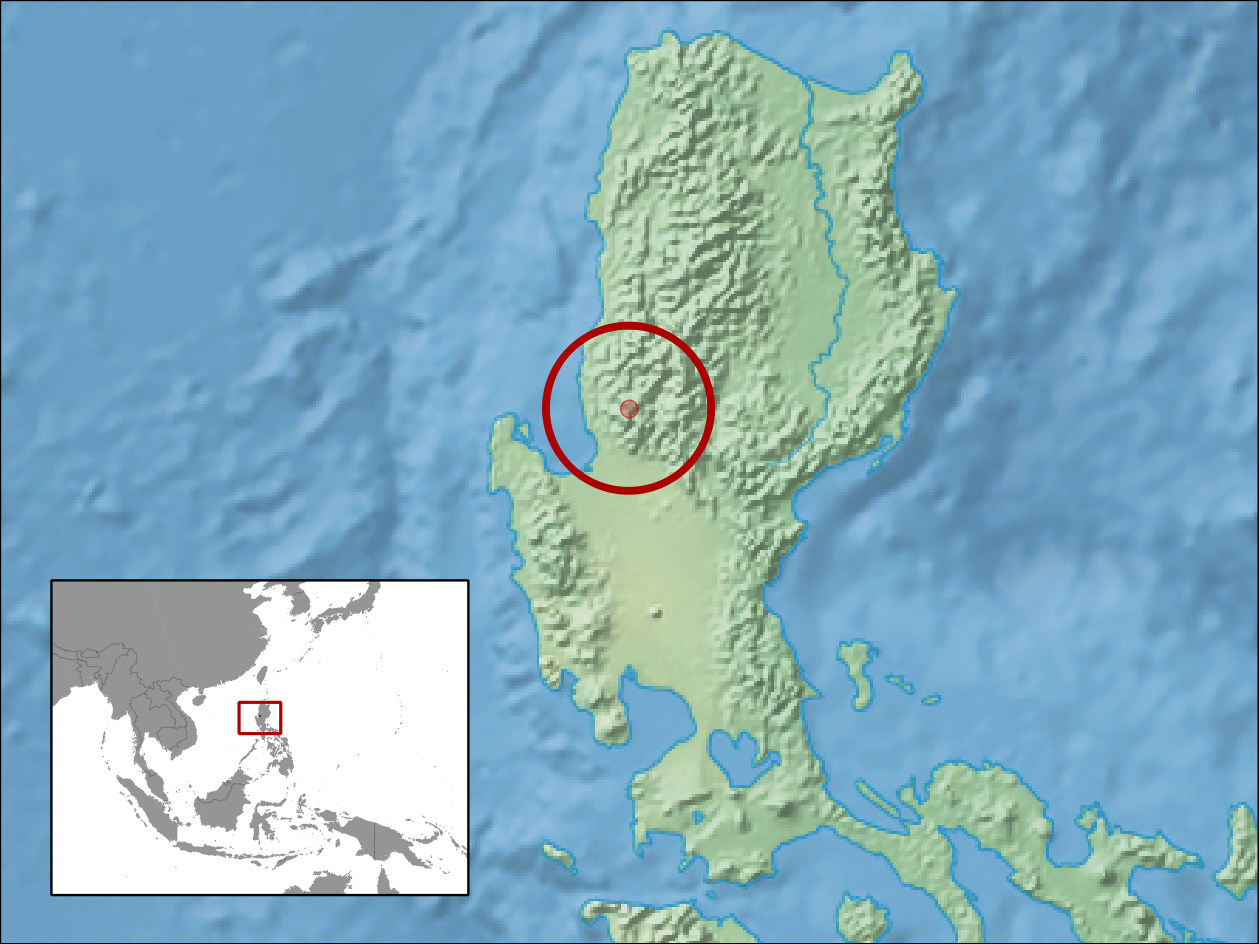 geographic distribution of Brachymeles wrighti